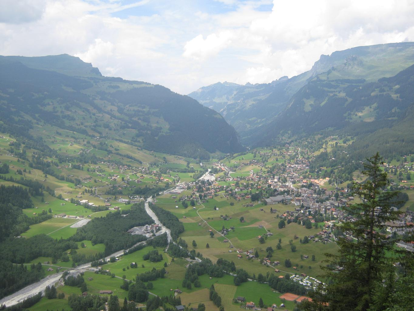 A view from a mountain in Grindelwald